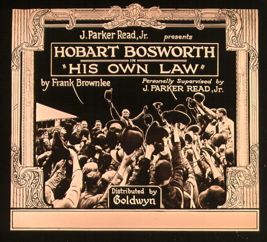 His Own Law is a 1920 silent film drama released by Goldwyn Pictures and starring Hobart Bosworth. This is a lantern slide for the film.